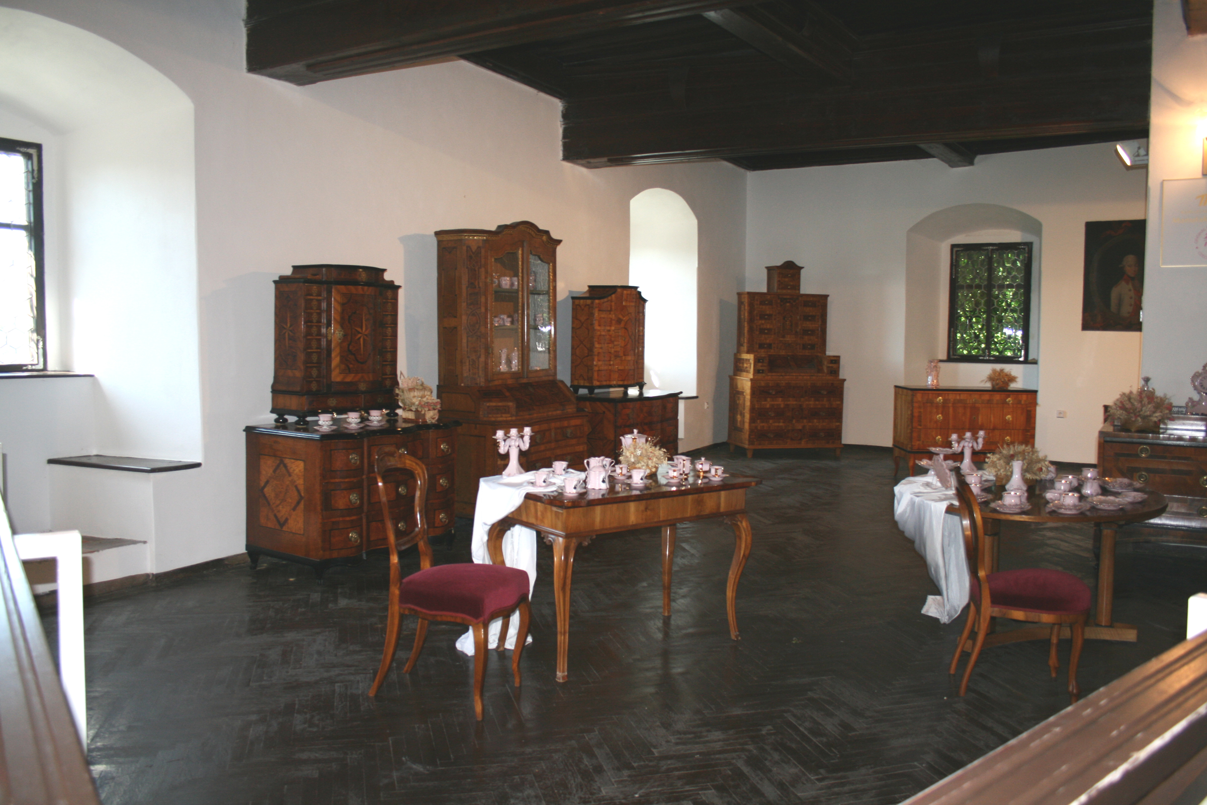 Exhibition of porcelain in Castle Seeberg (Ostroh) in Czech Republic, Region Karlovy Vary